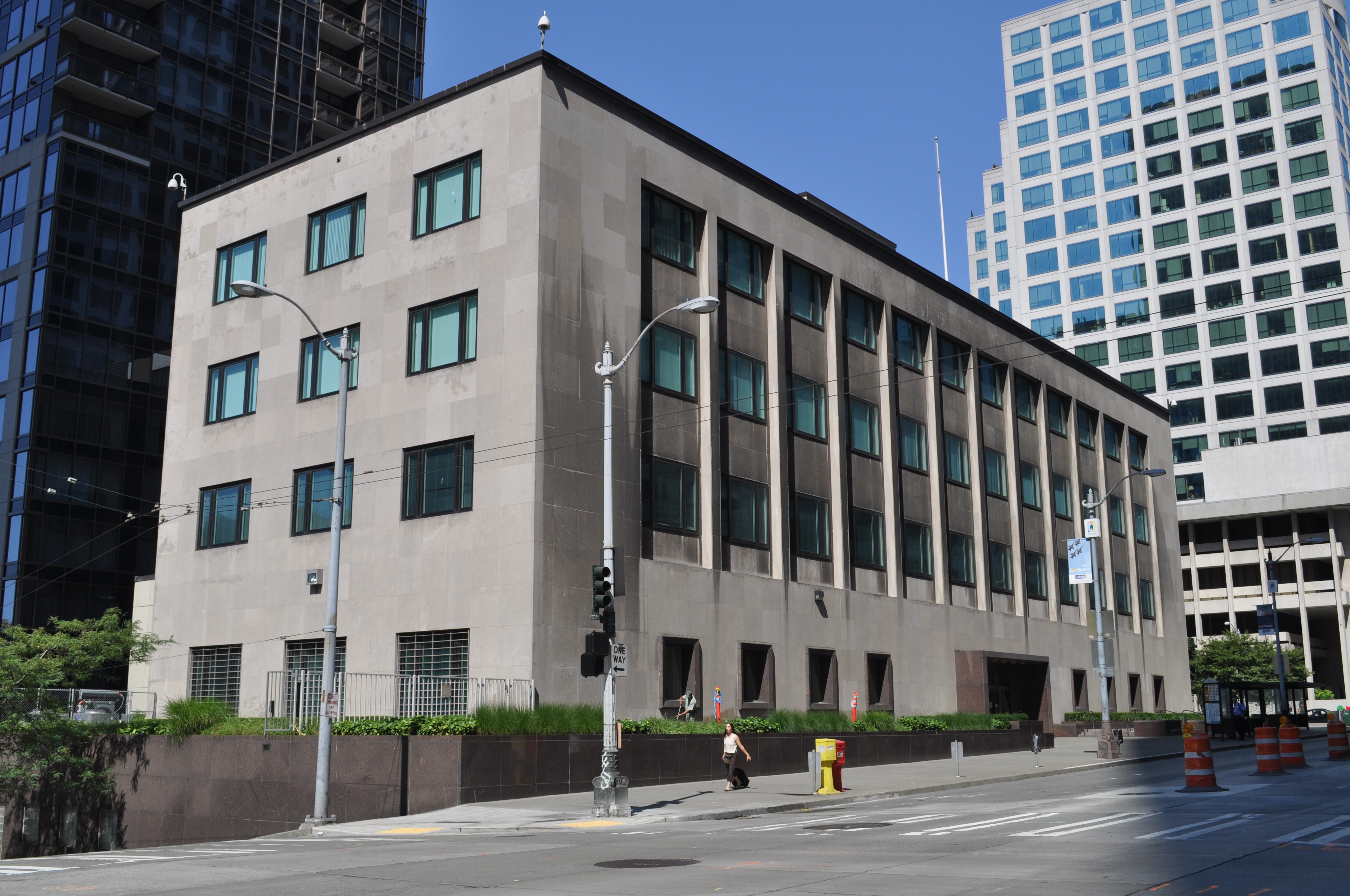 1015 Second Avenue, Seattle, Washington, USA, shortly after the Federal Reserve Bank of San Francisco moved out.